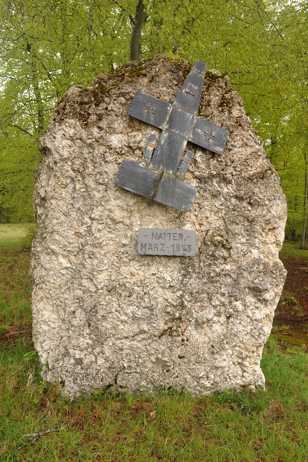 Memorial for the Bachem Ba 349 „Natter“ at the Ochsenkopf near Stetten am kalten Markt; Baden-Württemberg, Germany. The stylised Balkenkreuz on the wings is not conform to facts. The site is in a restricted military area.